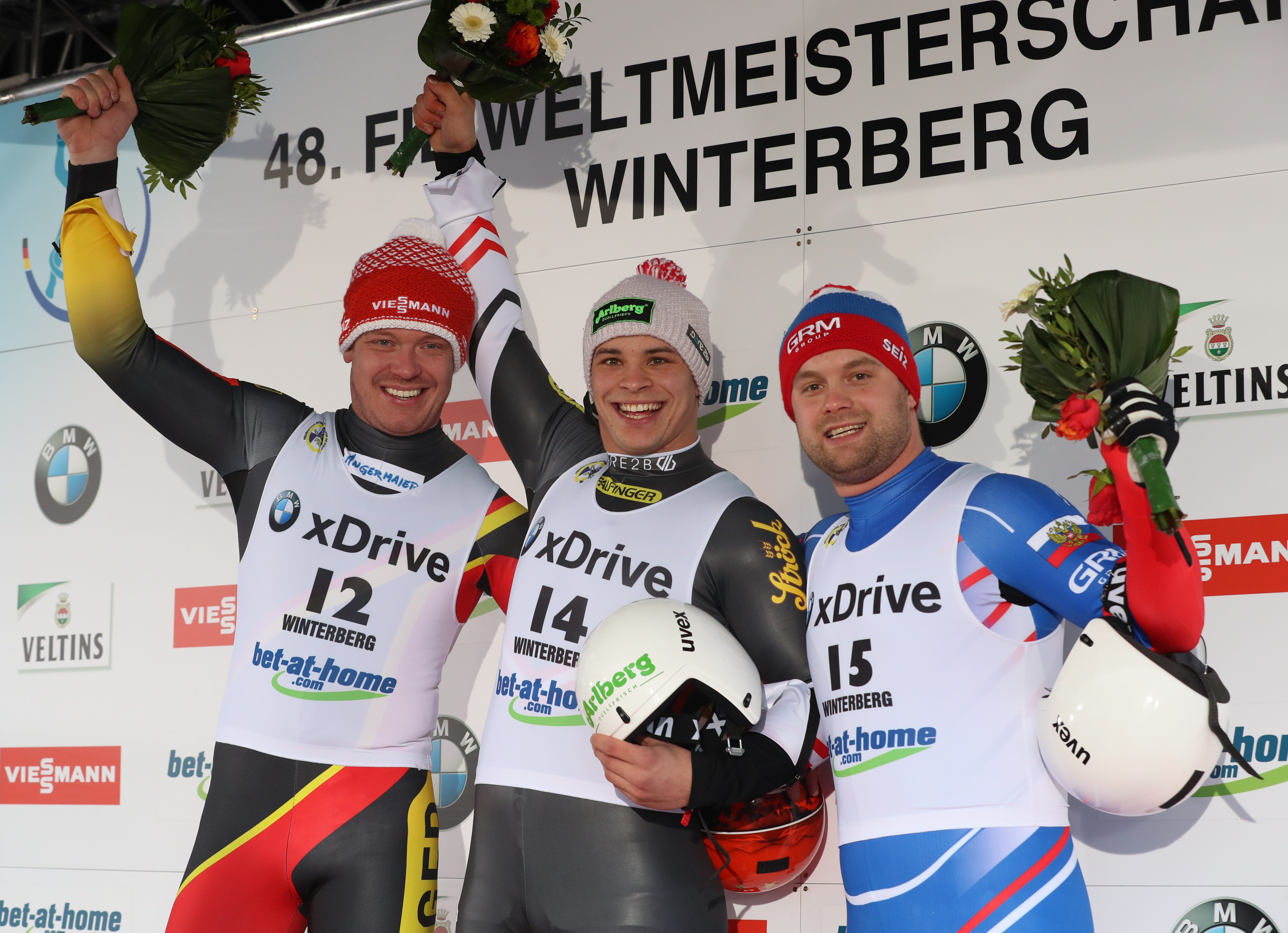 Men's Sprint World Championships at the FIL World Luge Championships 2019 in Winterberg